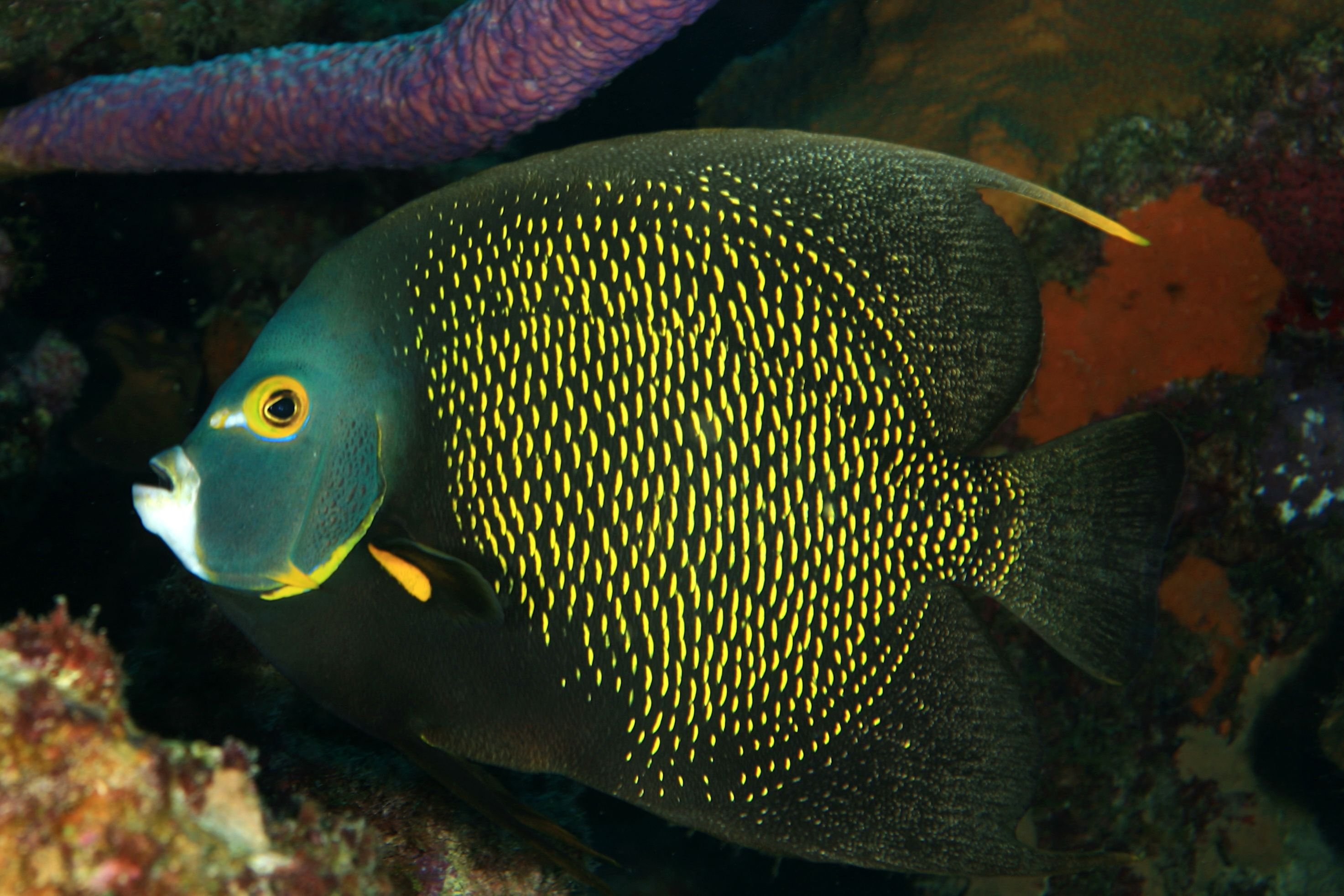 Angelfish are regarded as being one of the world's most intelligent fish. Smart or not, the French Angelfish is my favorite! Taken at Grote Knip, Westpunt, Curaçao EOS 5D in Ikelite Housing Dual Strobes Ikelite DS160 & DS125 Canon Zoom Lens EF 28-105mm 1:3.5-4.5 II USM